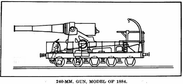 Canon de 240 mm Mile 1884 sur de Circonstance Schneider